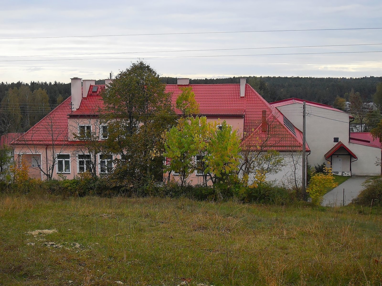 Elementary School in Piece